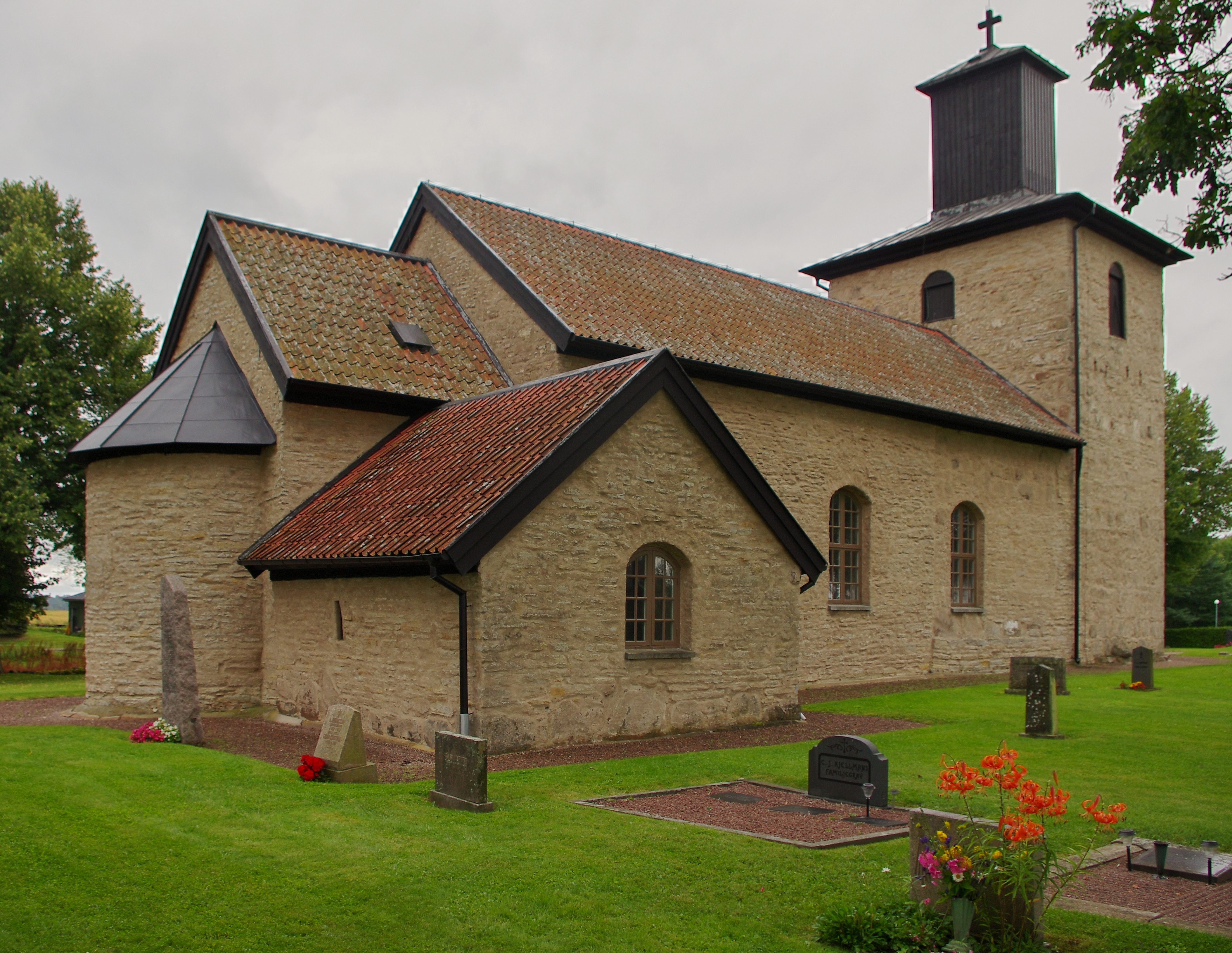 Norra Lundby kyrka (swedish:Norra Lundby church) in Norra Lundby parish, Valle hundred, Västergötland and Skara municipality, Västragötaland county, Sweden.